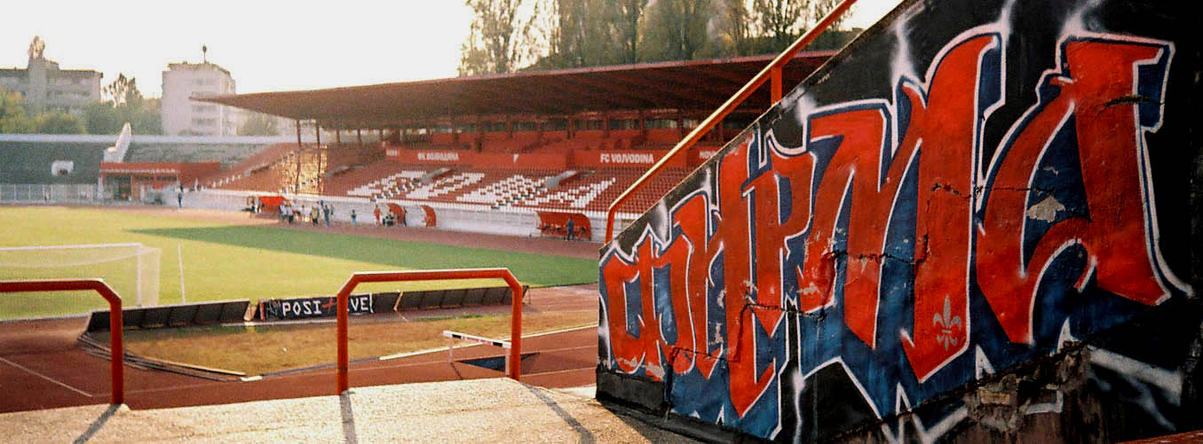 Stadium of Vojvodina (Stadium Karađorđe) in Novi Sad. Serbian: Stadion Vojvodine (stadion Karađorđe) u Novom Sadu.